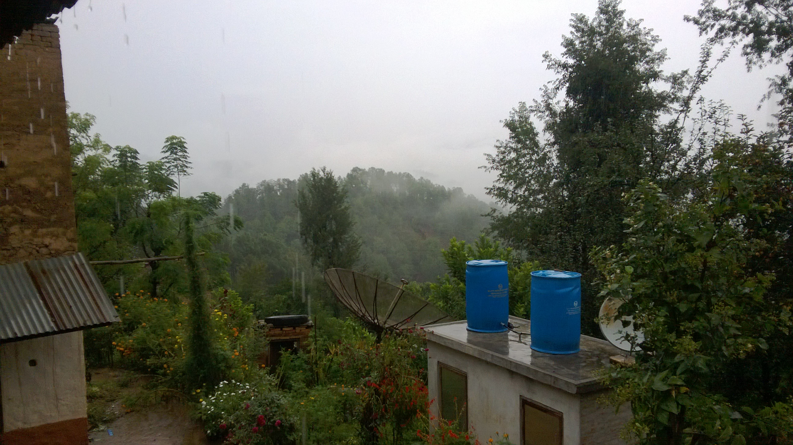 October rain as result of Phailin cyclone in India. October rain is very rare in this area.